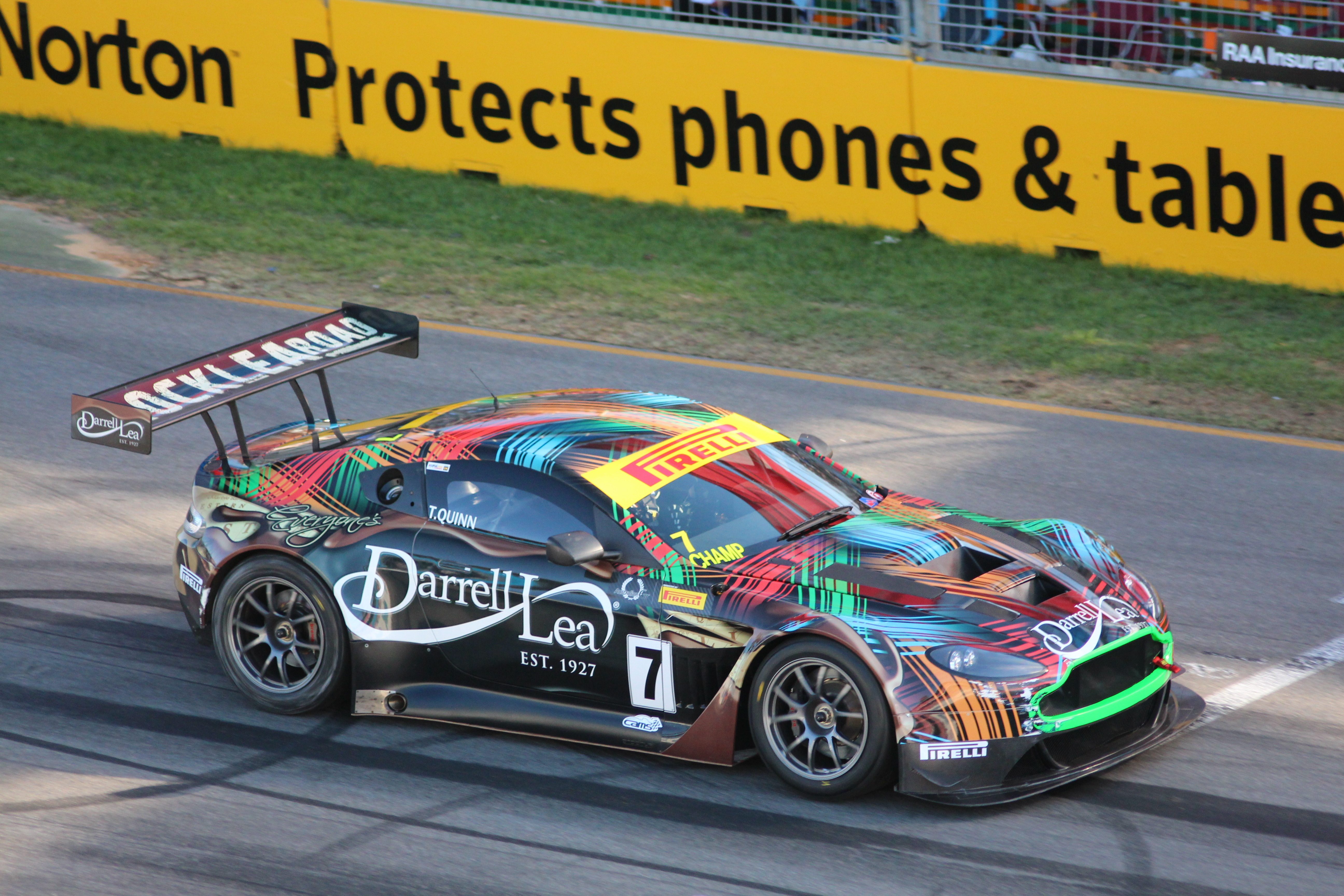 Tony Quinn's Aston Martin Vantage GT3 at the Clipsal 500 (2013)